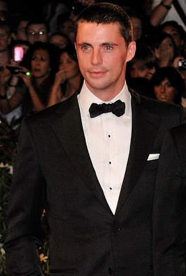 66th Venice Film Festival, 10th day (11/09/2009) on the red carpet with Matthew Goode for 'A Single Man'.